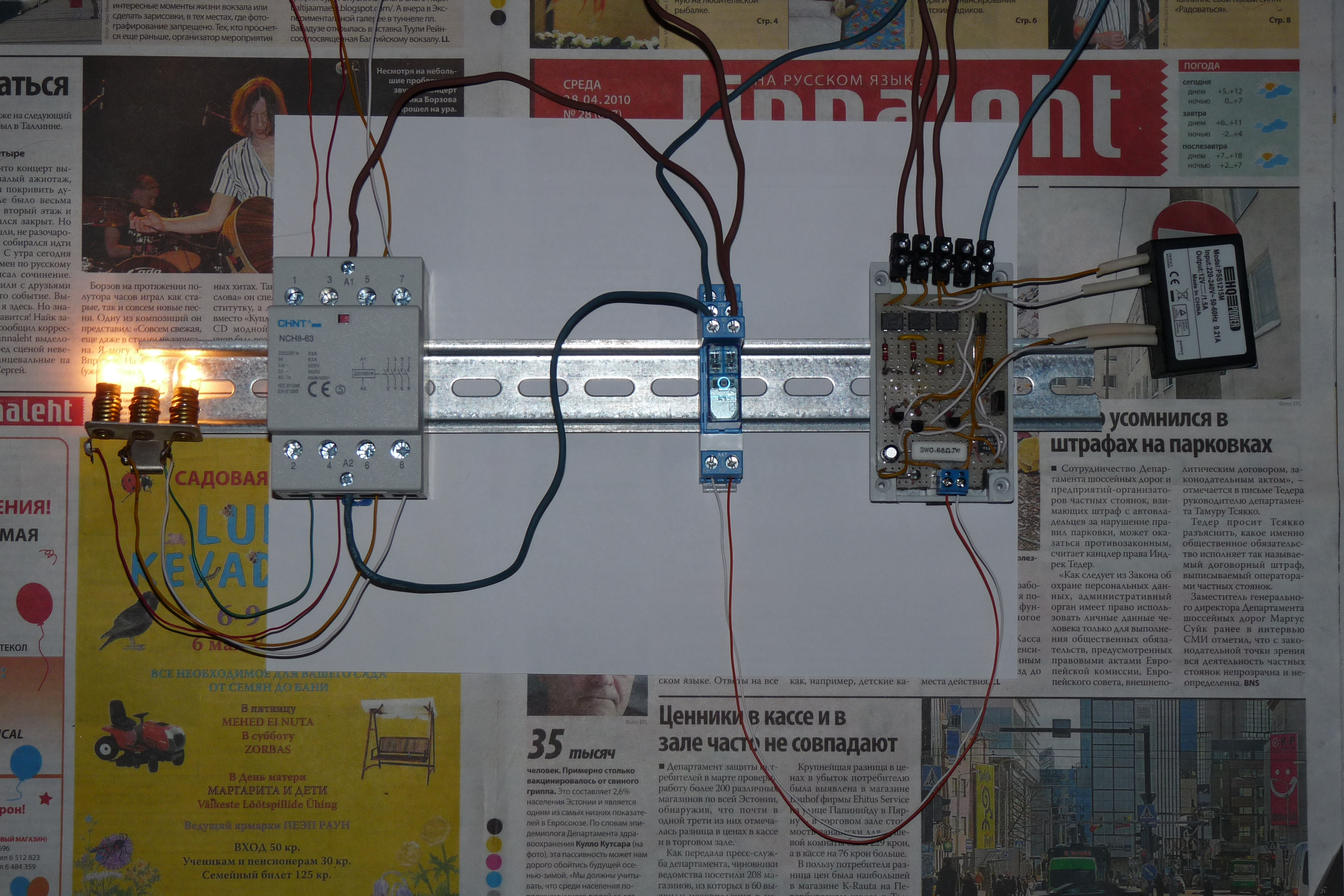 Phase control relay in action. If one of 3 phases loses due to any reason, driving unit will switch off the load. Very good protection from phases warping. NB! This construction is only for show it's way of working. Doing such experiments, obligatory use the non-conductive cover!!!